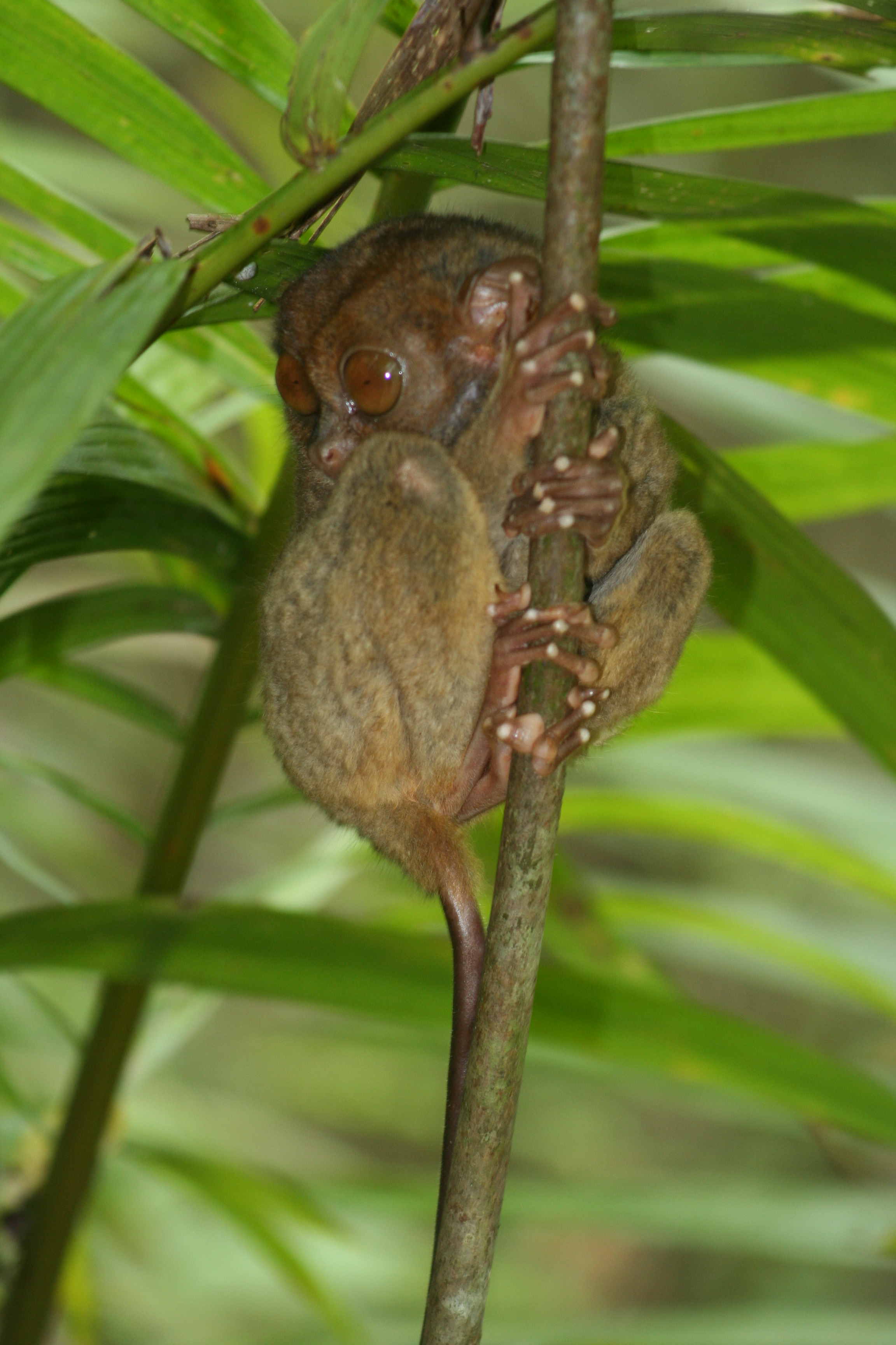 A Philippine Tarsier at the Philippine Tarsier Sanctuary, Corella, Bohol, The Philippines.